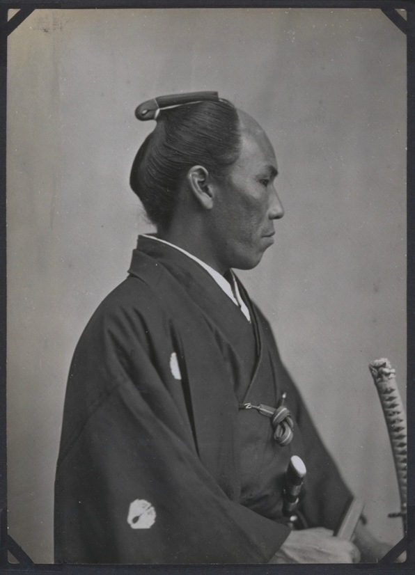 Photograph of the Japanese samurai who visited Paris